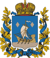 Łomża gubernia (Russian empire), coat of arms